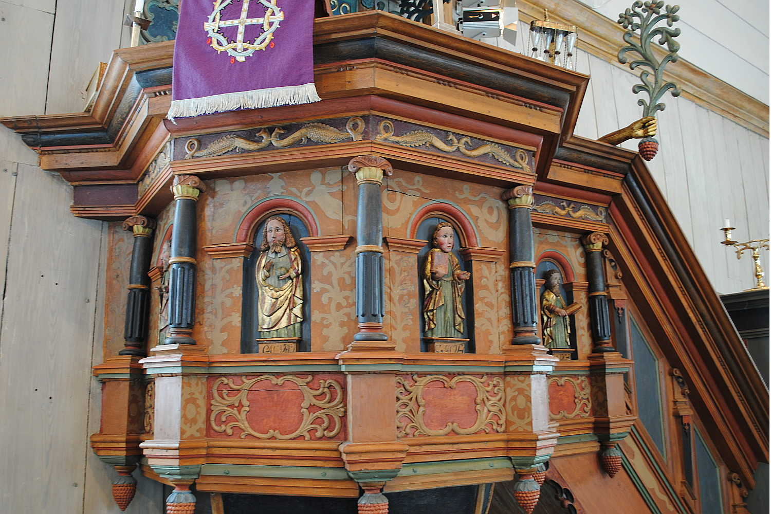 Mockfjärds church, pulpit, detail